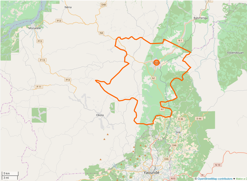 Obala in Cameroon ː city boundaries with OSM. This map may be incomplete, and may contain errors. Don't rely solely on it for navigation.